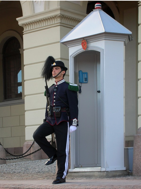 Soldier in front of Royal Palace in Oslo (Norway)